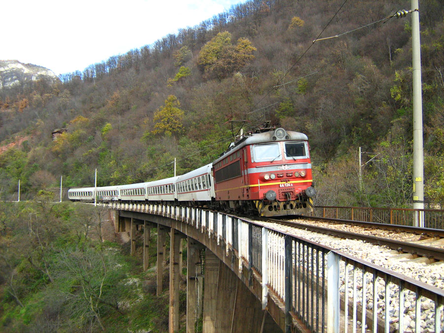 Plovdiv Express Train on a viaduct after Opletnya station